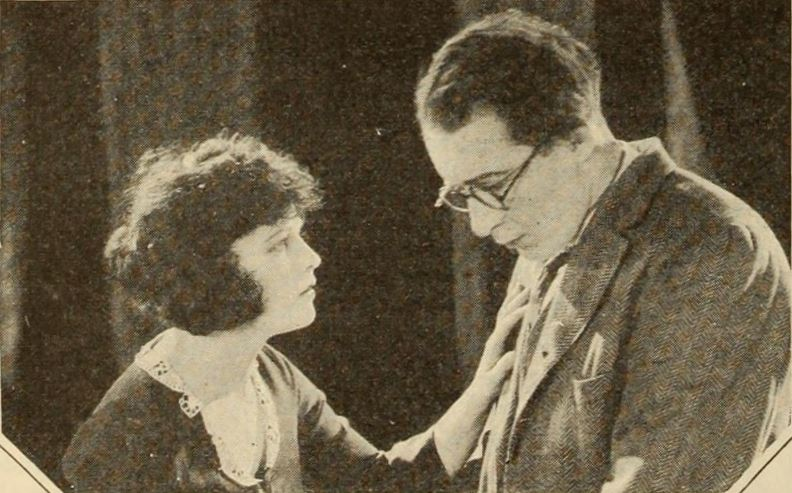 Still with Jacqueline Logan and Monte Blue in the American film A Perfect Crime (1921), from page 58 of the July 1921 Photoplay magazine.